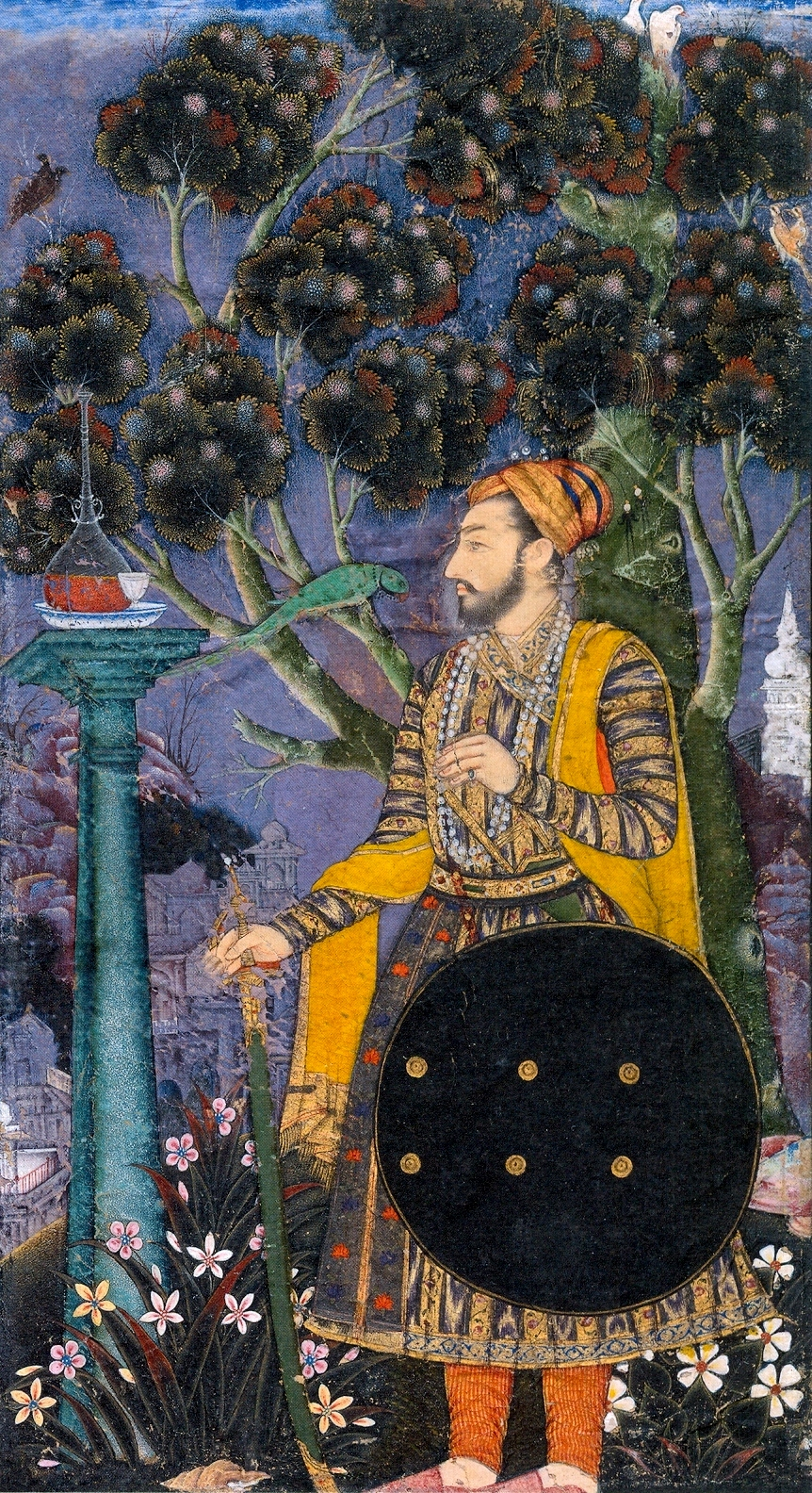 Bodleian painter. Sultan Muhammad Adil Shah, Bijapur ca 1635, Private collection